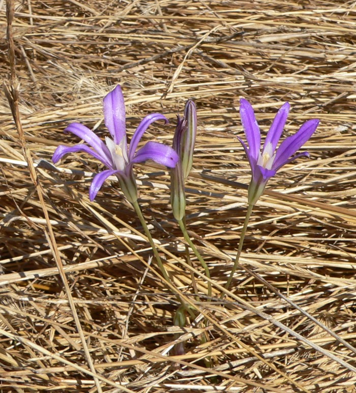 Brodiaea species. Taken at the Cosumnes River Preserve, in the Central Valley of California.